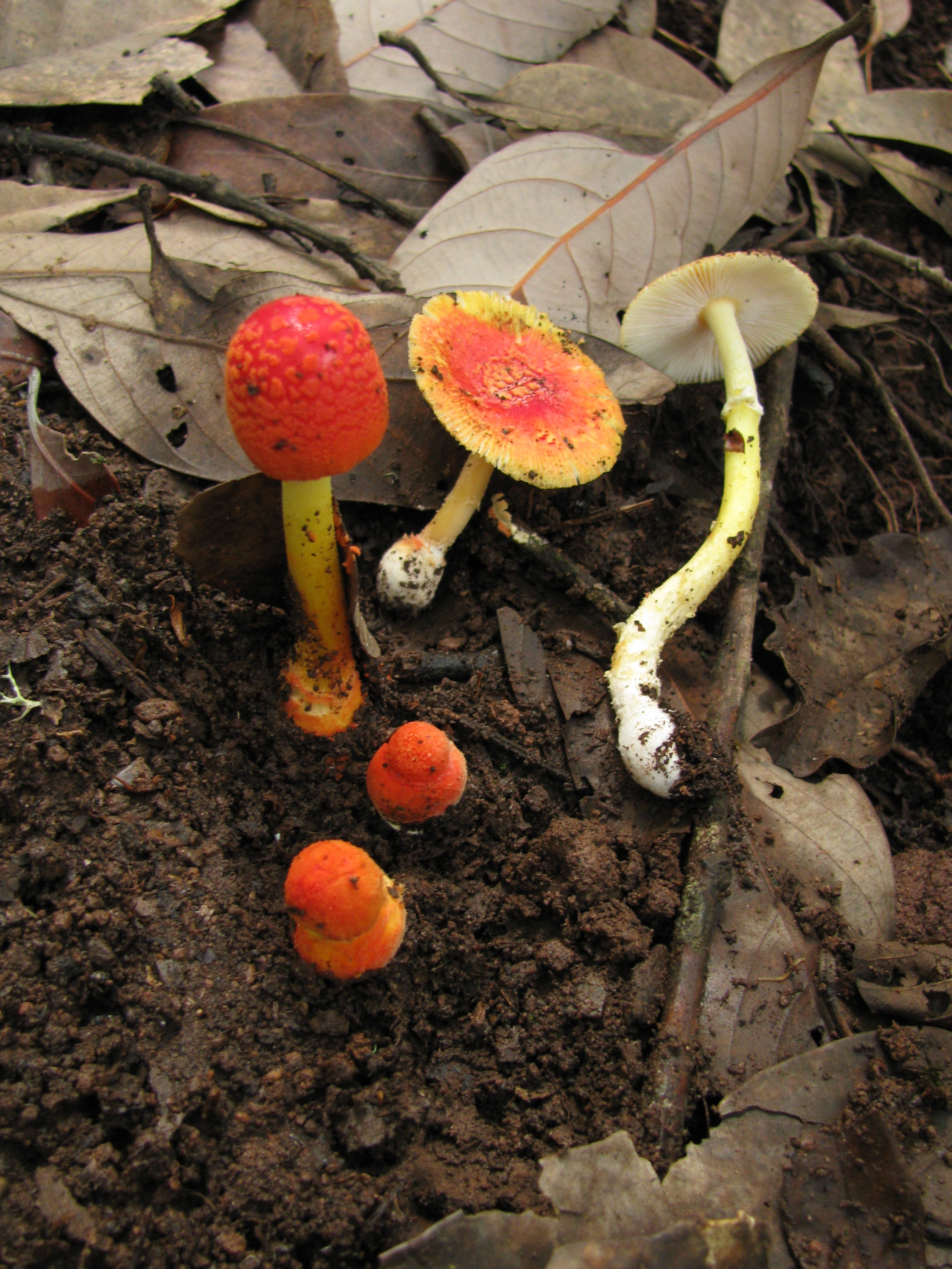 Fruit bodies of the fungus Amanita rubrovolvata S. Imai. Specimen photographed in Lu Feng, Yunnan Province, China.